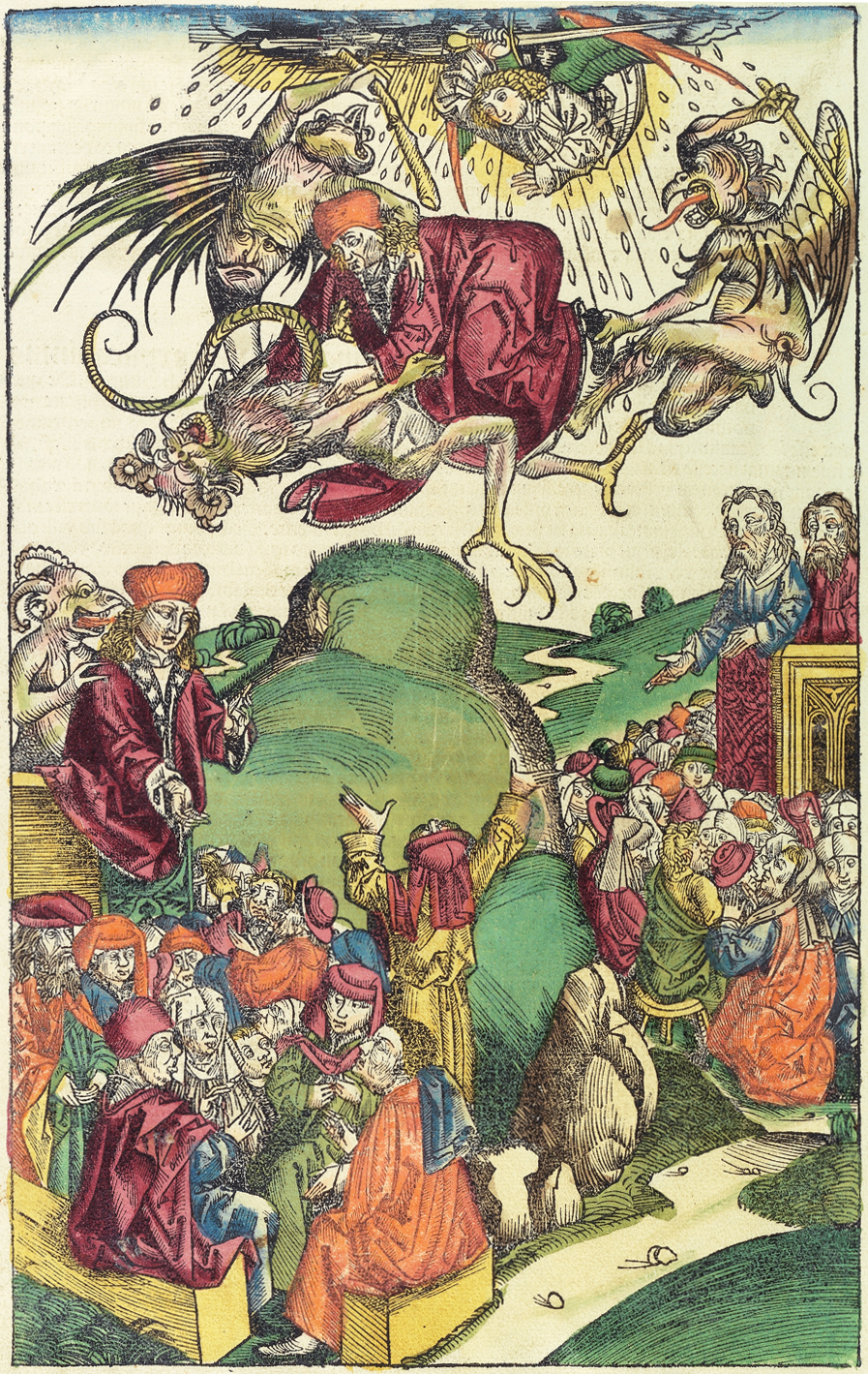 Illustration from the Nuremberg Chronicle (Latin copy in Sao Paulo)